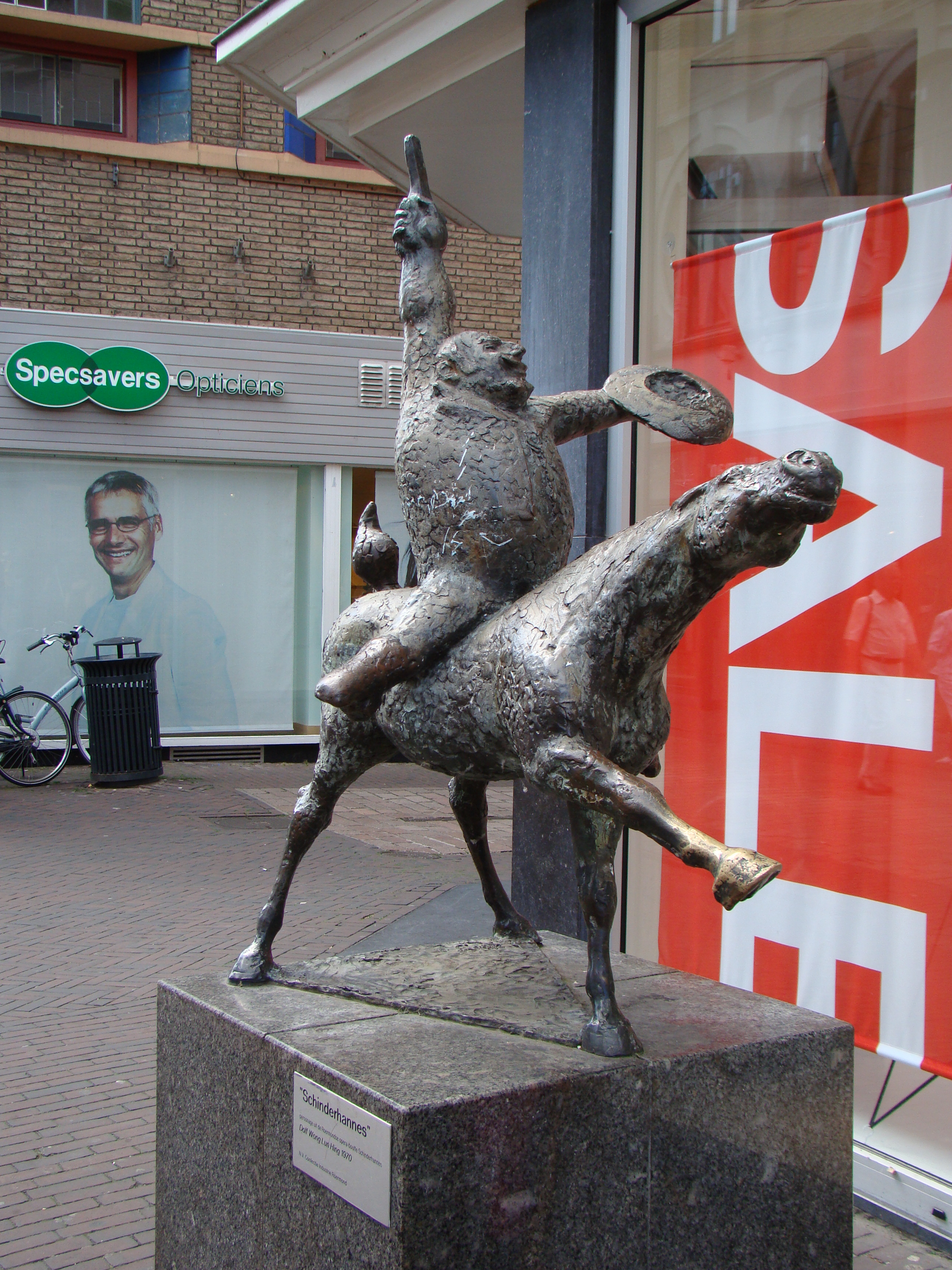 Artwork Schinderhannes by in Roermond (Netherlands)